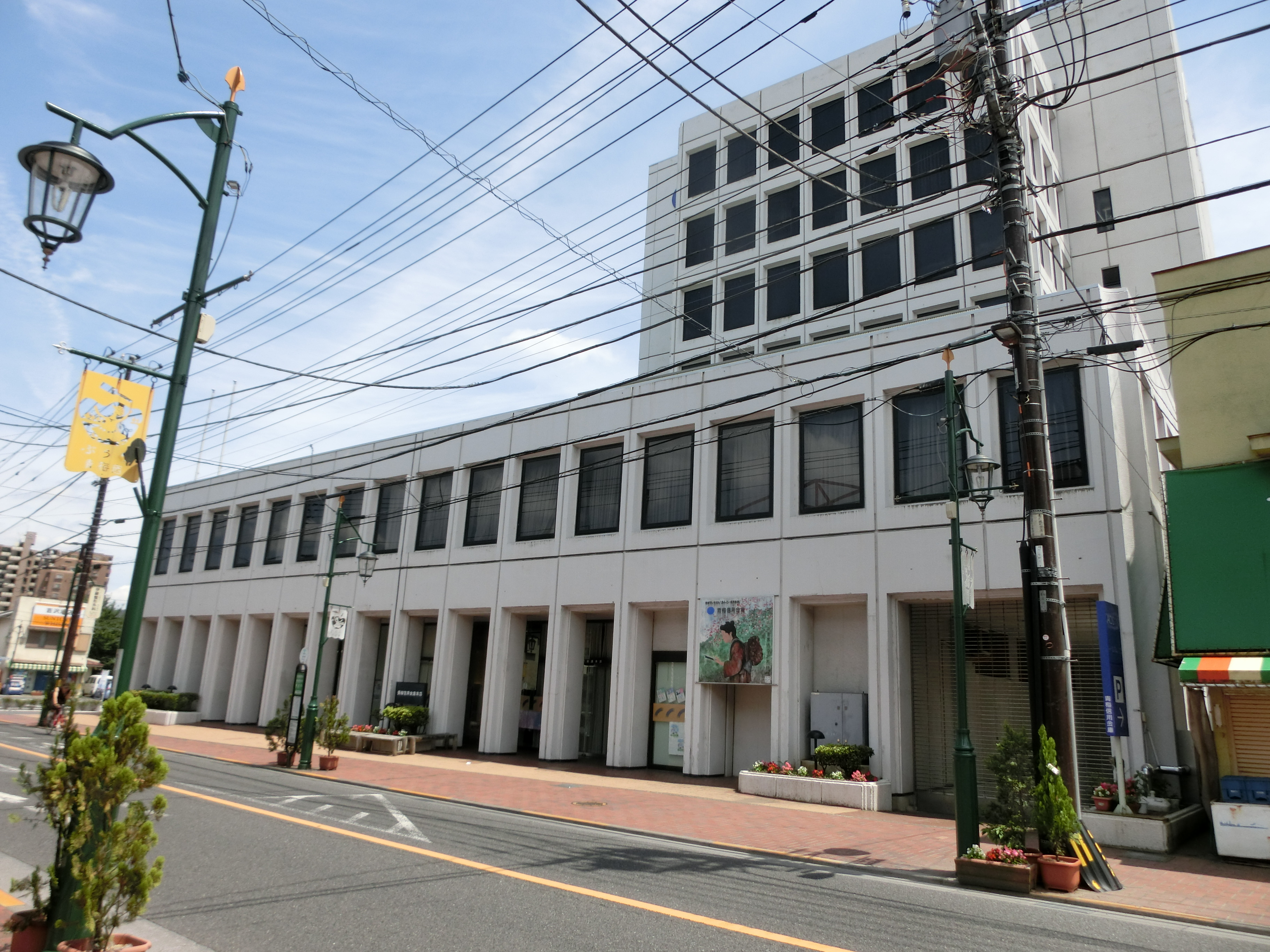 Ome Shinkin Bank Head Office